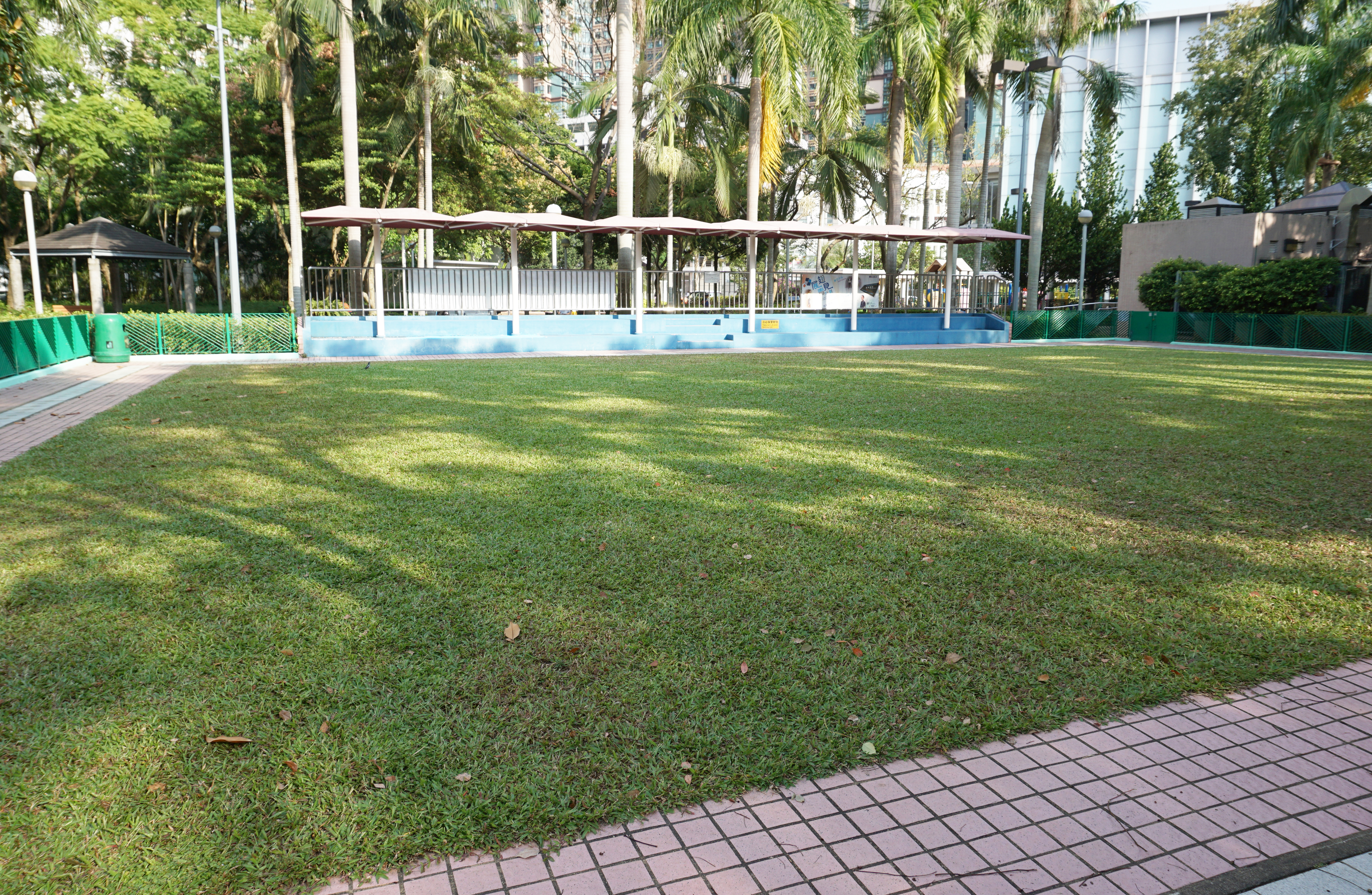 Sheung Ning Playground in Hang Hau, Hong Kong.